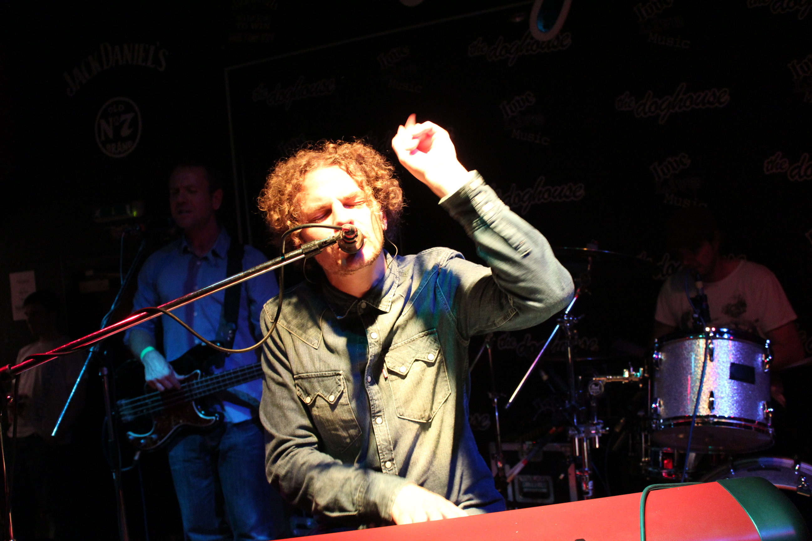 Toploader(3 of the 4 members pictured) performing at The Doghouse in Dundee, 23/10/2011.